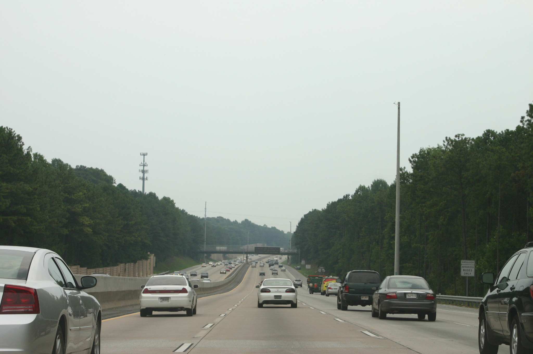 Georgia State Route 400 Southbound